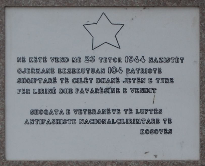 War memorial, recently installed (as of February 2013) in Pristina, Kosovo. Transcription: "At this location on 23 October 1944, German nazis executed 104 Albanian patriots who gave their lives for the freedom and independence of their country. Society of Anti-nazi and National Liberation Veterans of Kosovo." See also File:23 October 1944 Memorial, Pristina, Kosovo 02.JPG and File:23 October 1944 Memorial, Pristina, Kosovo 03.JPG